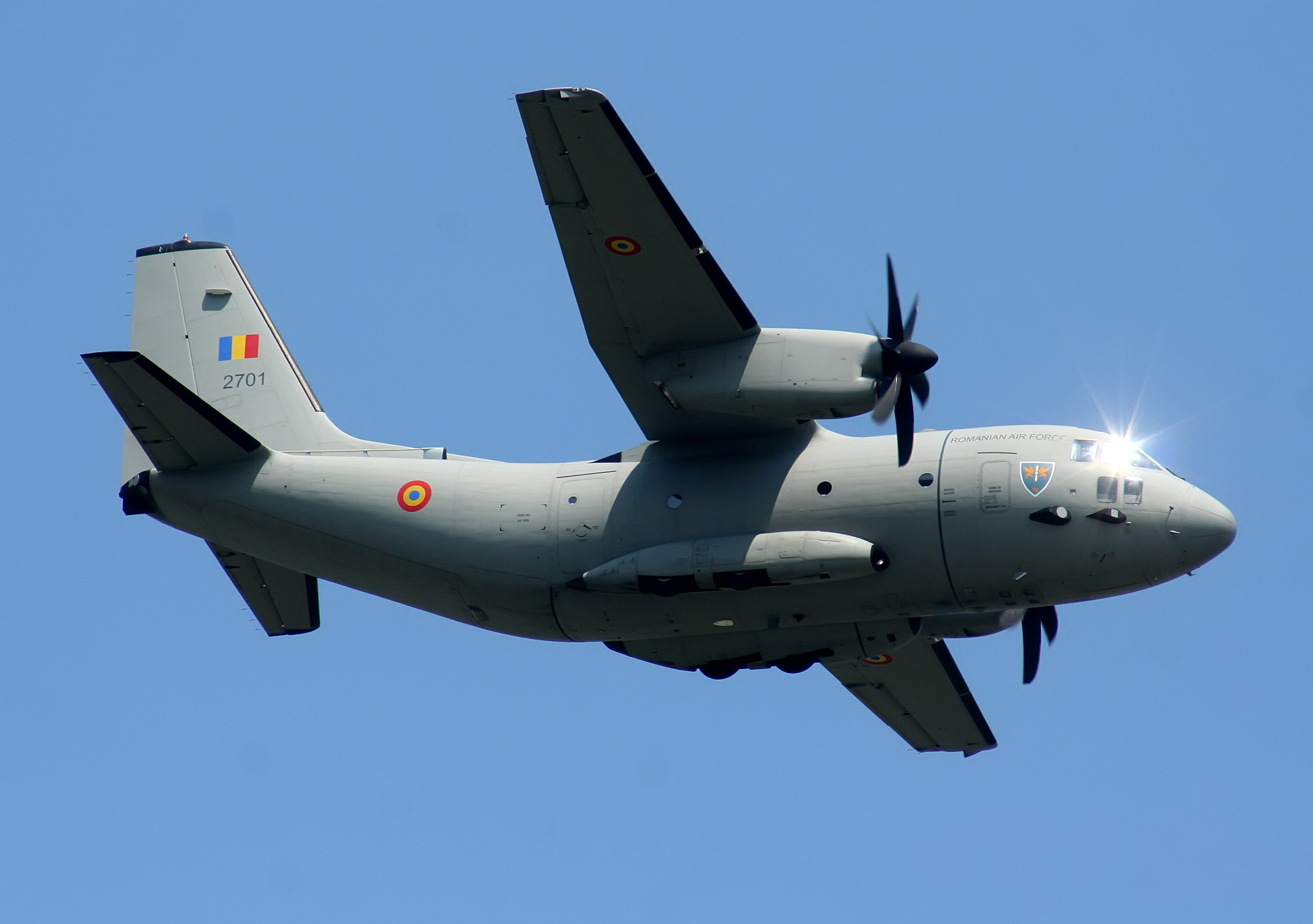 C-27J Spartan at Otopeni Air Show 2010